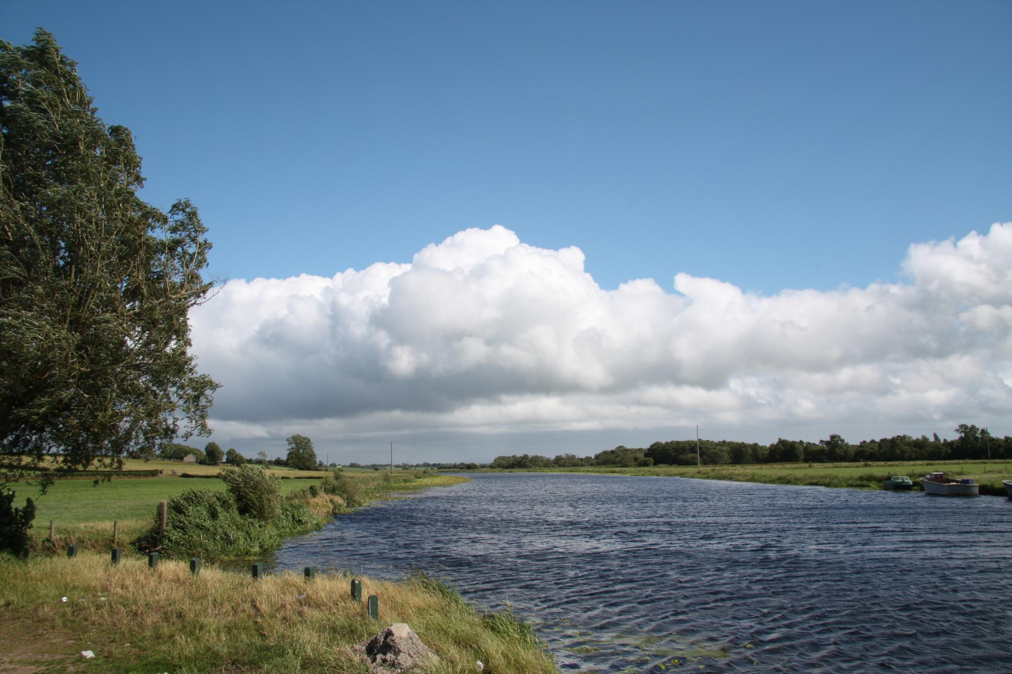 Where the River Bann runs into Lough Neagh, Northern Ireland